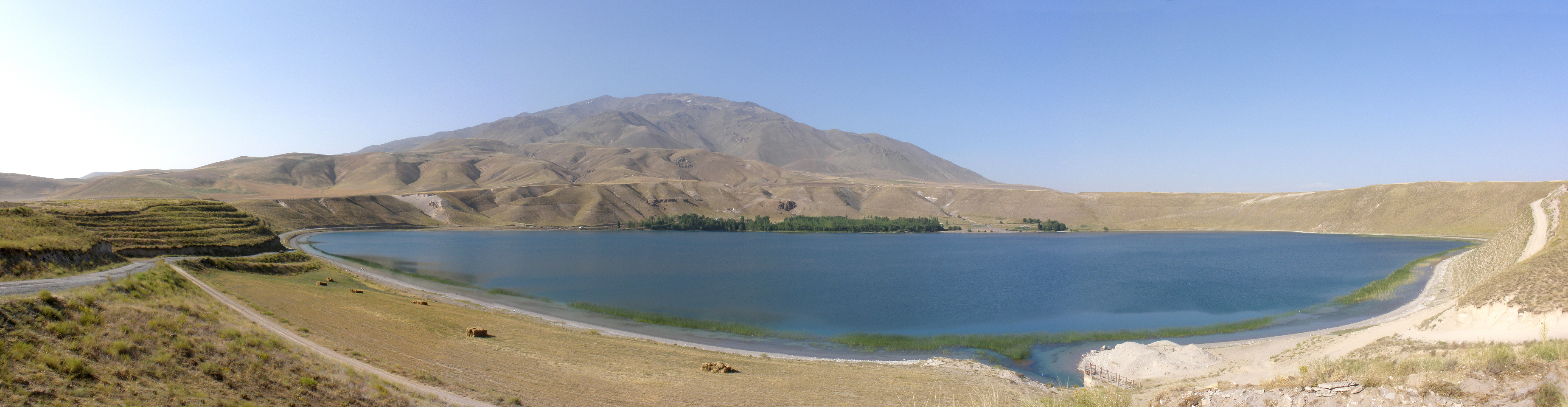 Mount Süphan in summer 2009, shot from lake Aygırgölü.